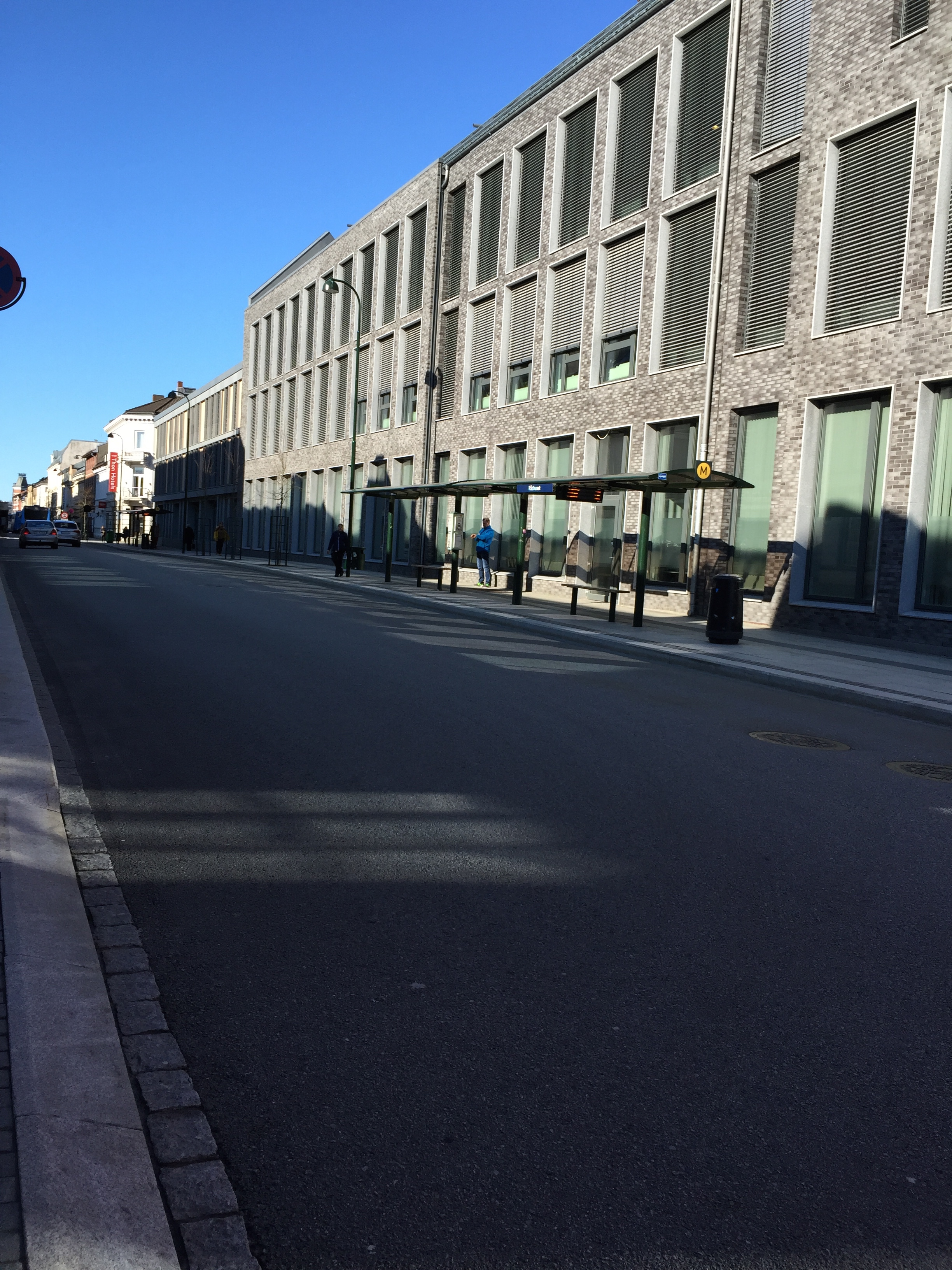 Kristiansand rådhus